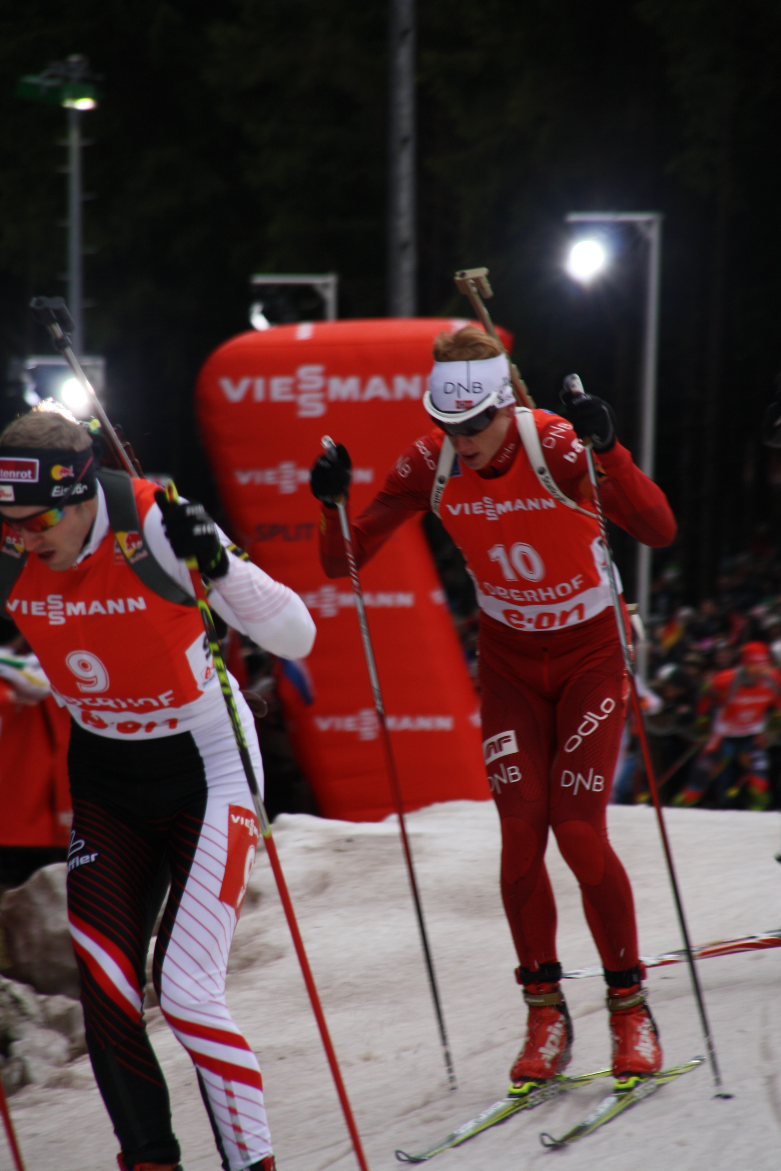 Biathlon World Cup Oberhof 2014 - Mens Pursuit